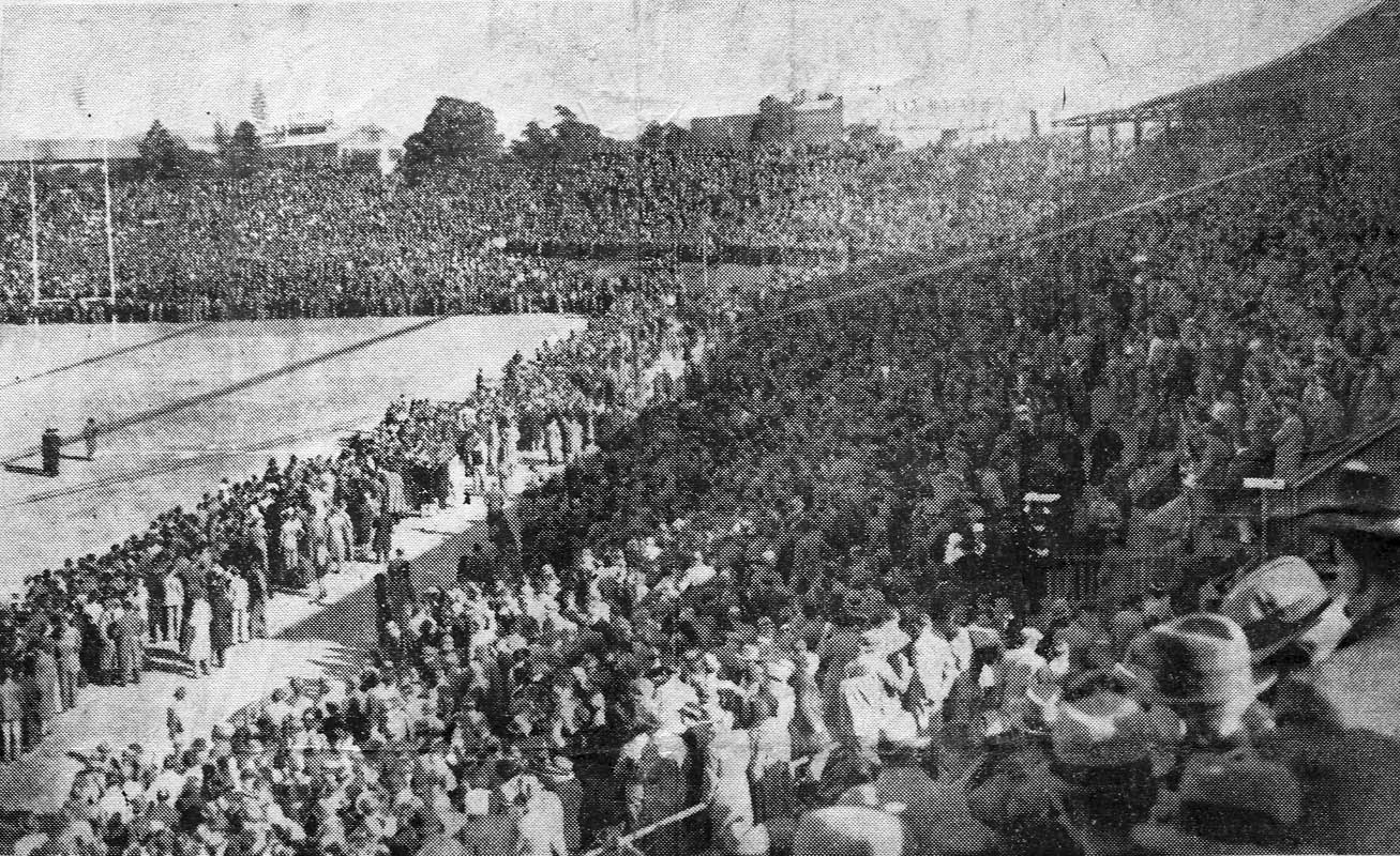 View of the Ellis Park stadium for the South Africa v. British Lions first test.